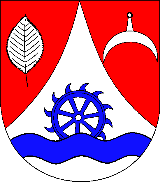 Coat of arms of the municipality Bokel in Schleswig-Holstein, Germany.